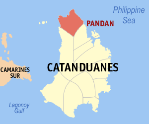 Map of Catanduanes showing the location of Pandan